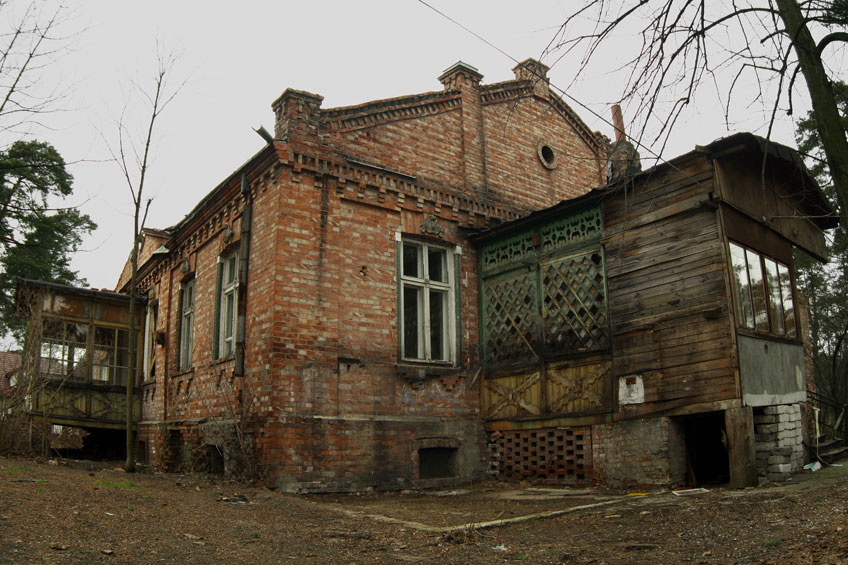 Willa Jakubówka in Józefów, Otwock County, Poland. It was considered as a synagogue for a long time.